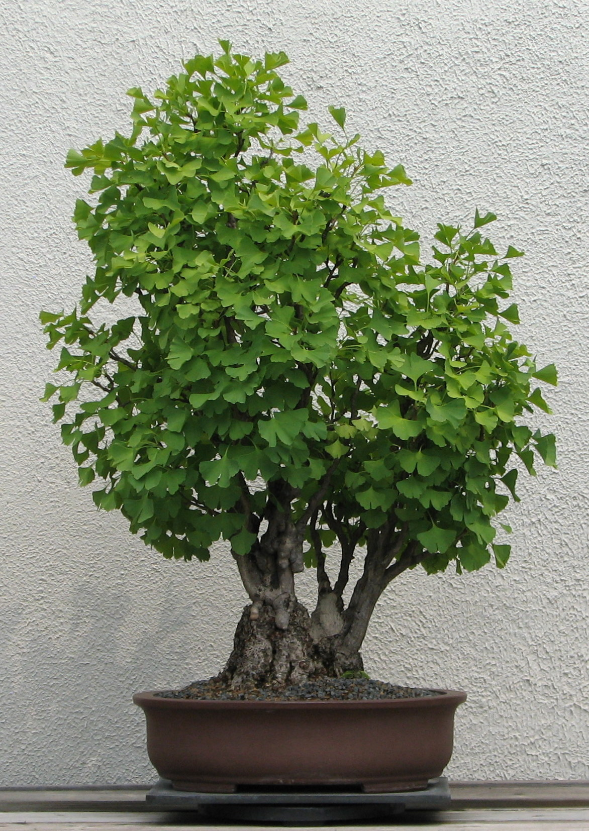 A Ginkgo (Ginkgo biloba) bonsai on display at the National Bonsai & Penjing Museum at the United States National Arboretum. According to the tree's display placard, it has been in training since 1926. It was donated by Kiku Shinkai.